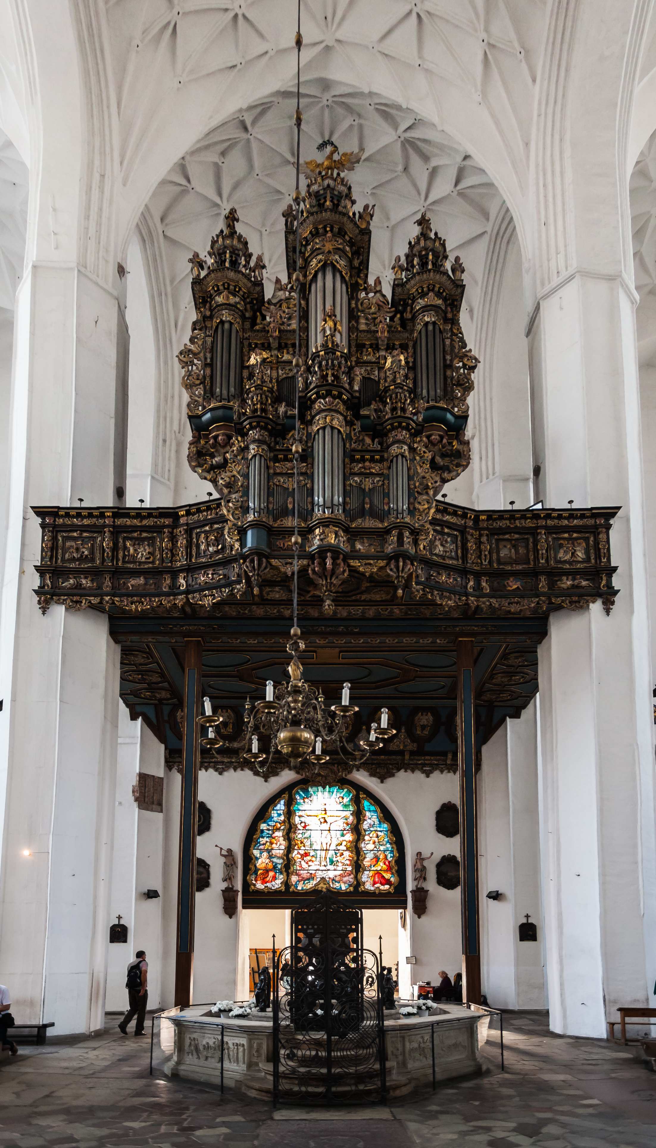 Church of St Mary, Gdansk, Poland